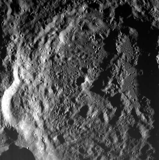 Purcell crater on Mercury. MESSENGER Wide Angle Camera image. North is at left. Width is approximately 74 km at bottom. Emission Angle: 0.2 Incidence Angle: 82.9 Latitude: 80.6 Longitude: 209.6 Phase Angle: 82.8